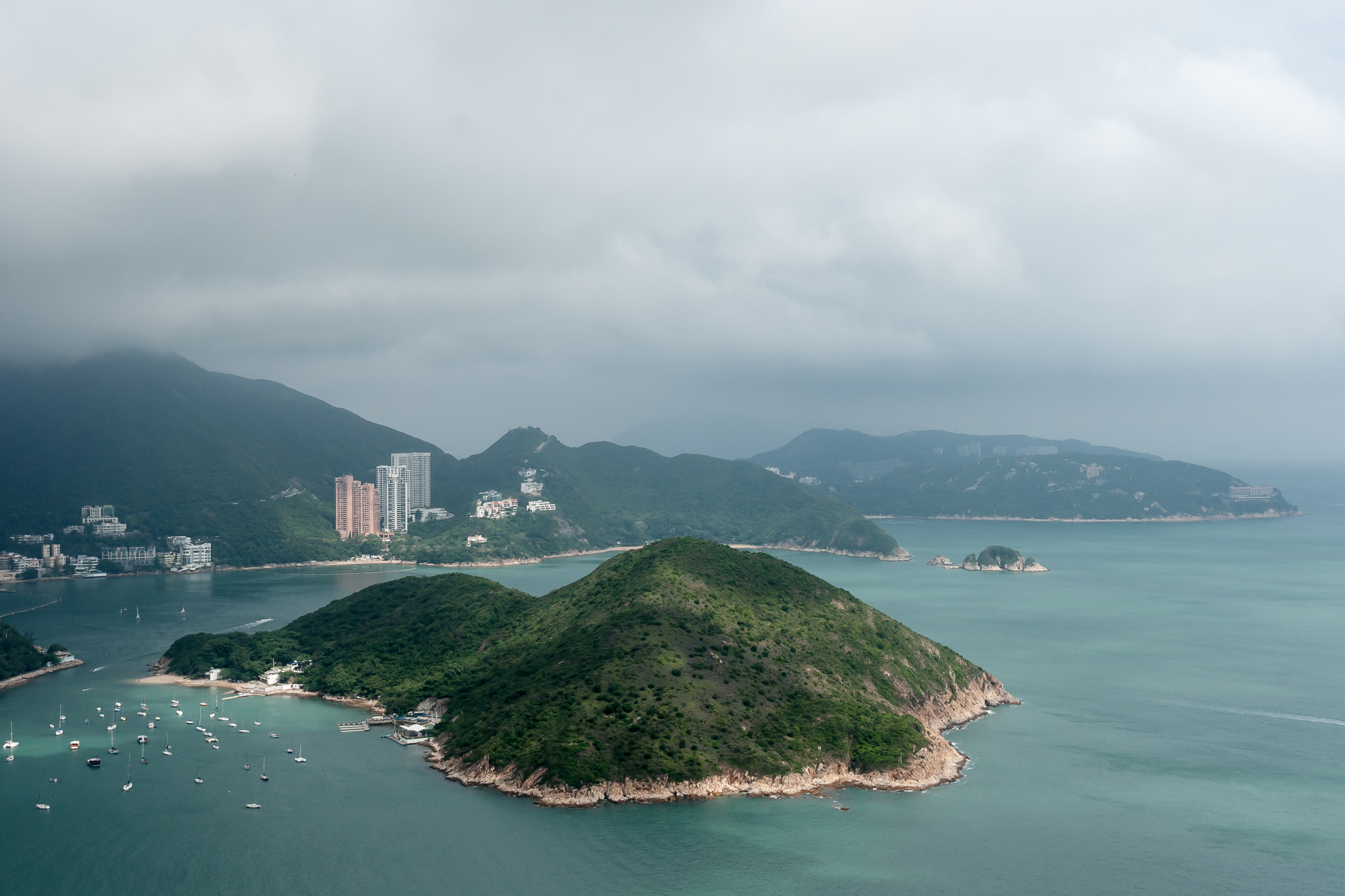 Hong Kong, China: Middle Island between Deep Water Bay (foreground) and Repulse Bay (background left) and Middle Bay (background middle)